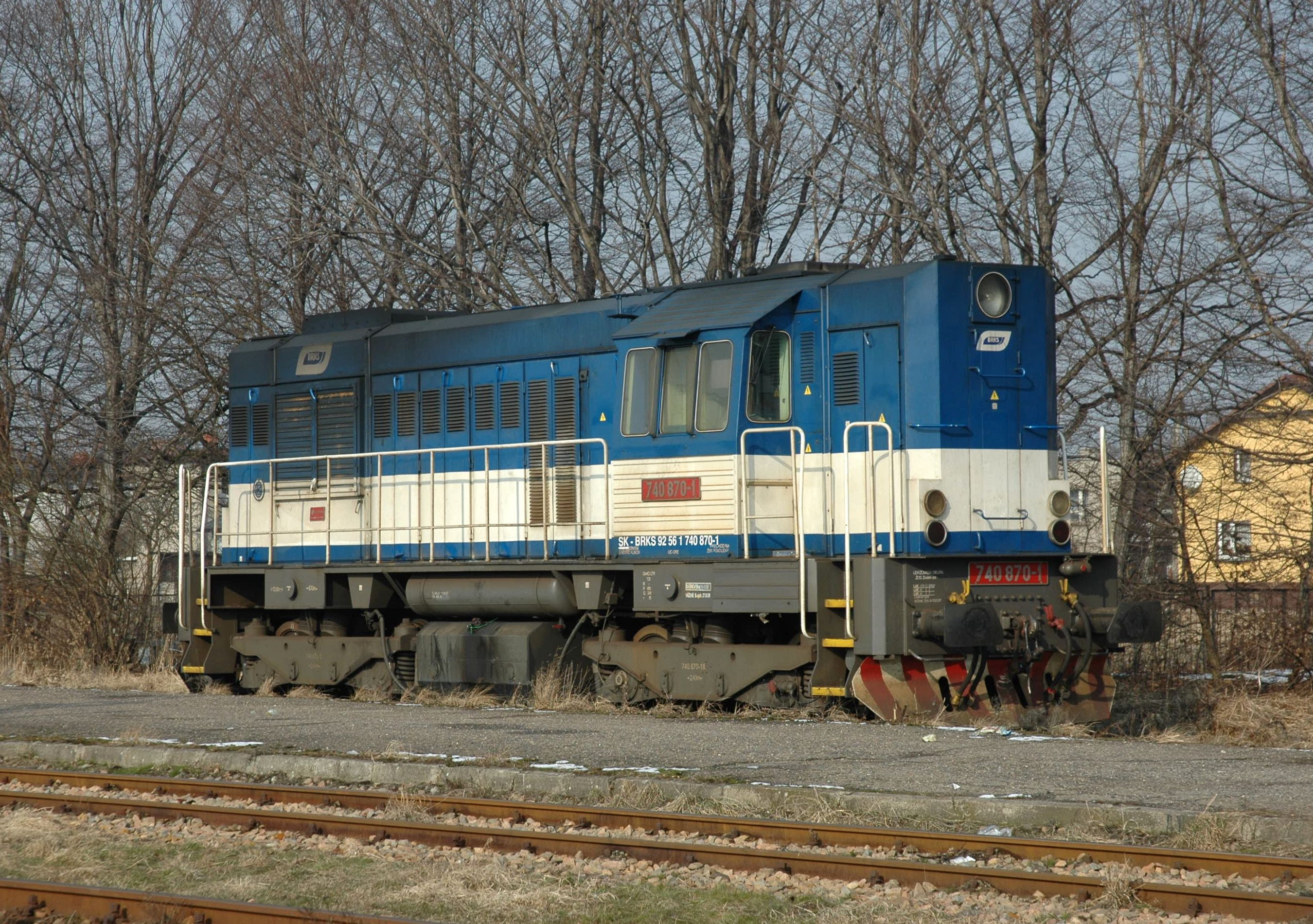 Locomotive 740.870 owned by Bratislavská regionálna koľajová spoločnosť (BRKS), Chałupki, Poland